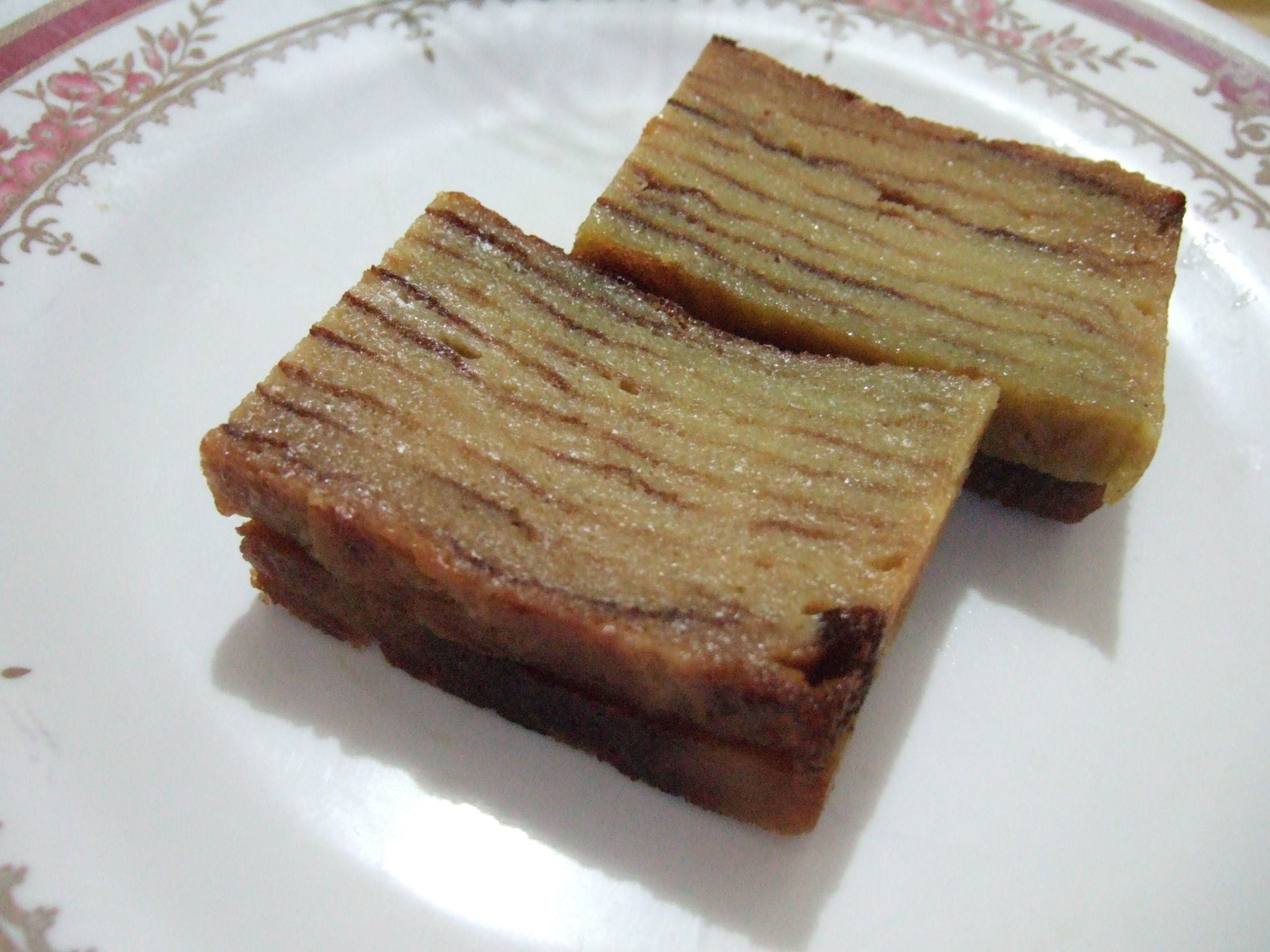 Maksuba Cake from Palembang, South Sumatra. Made of duck eggs, sugar, margarine and condensed milk. Oven baked.